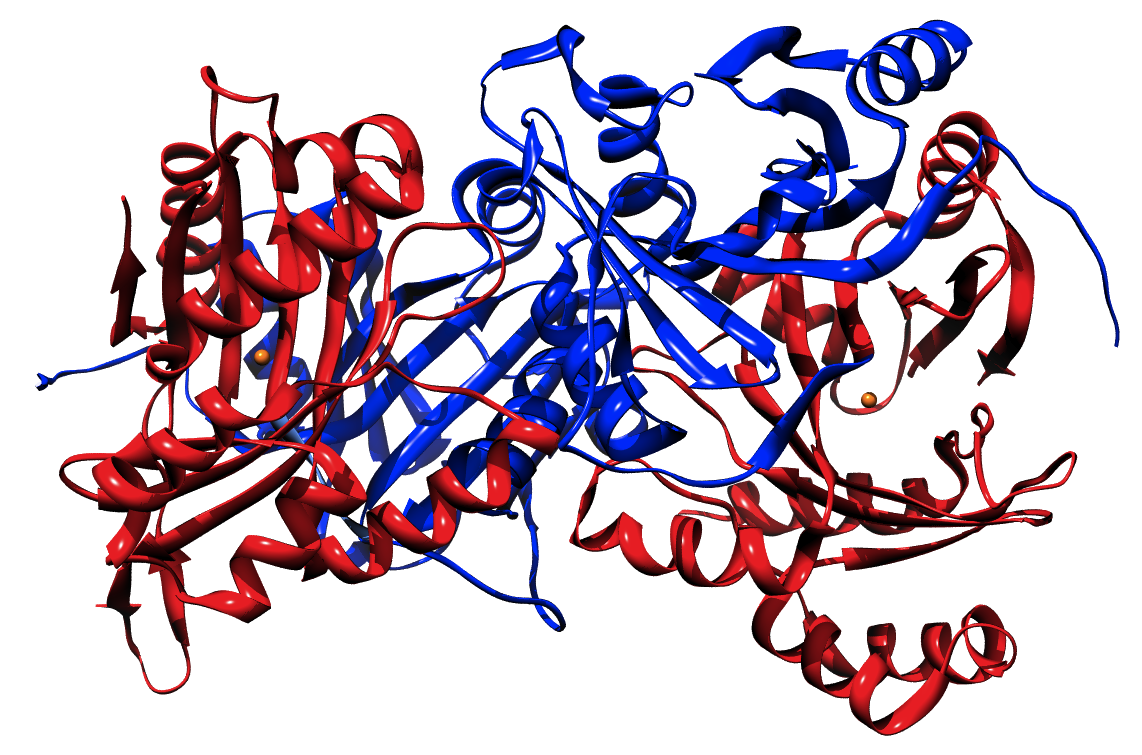 Ribbon diagram of 4-Hydroxyphenylpyruvate Dioxygenase from Arabidopsis thaliana.